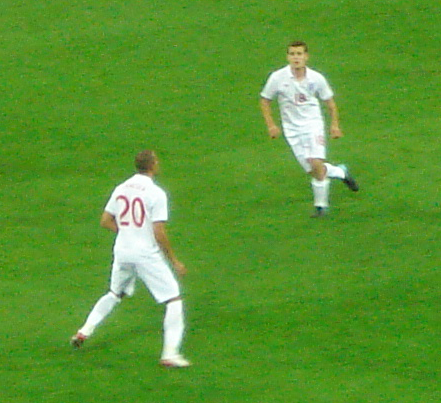 Zamora and Wilshere debut for England National Team